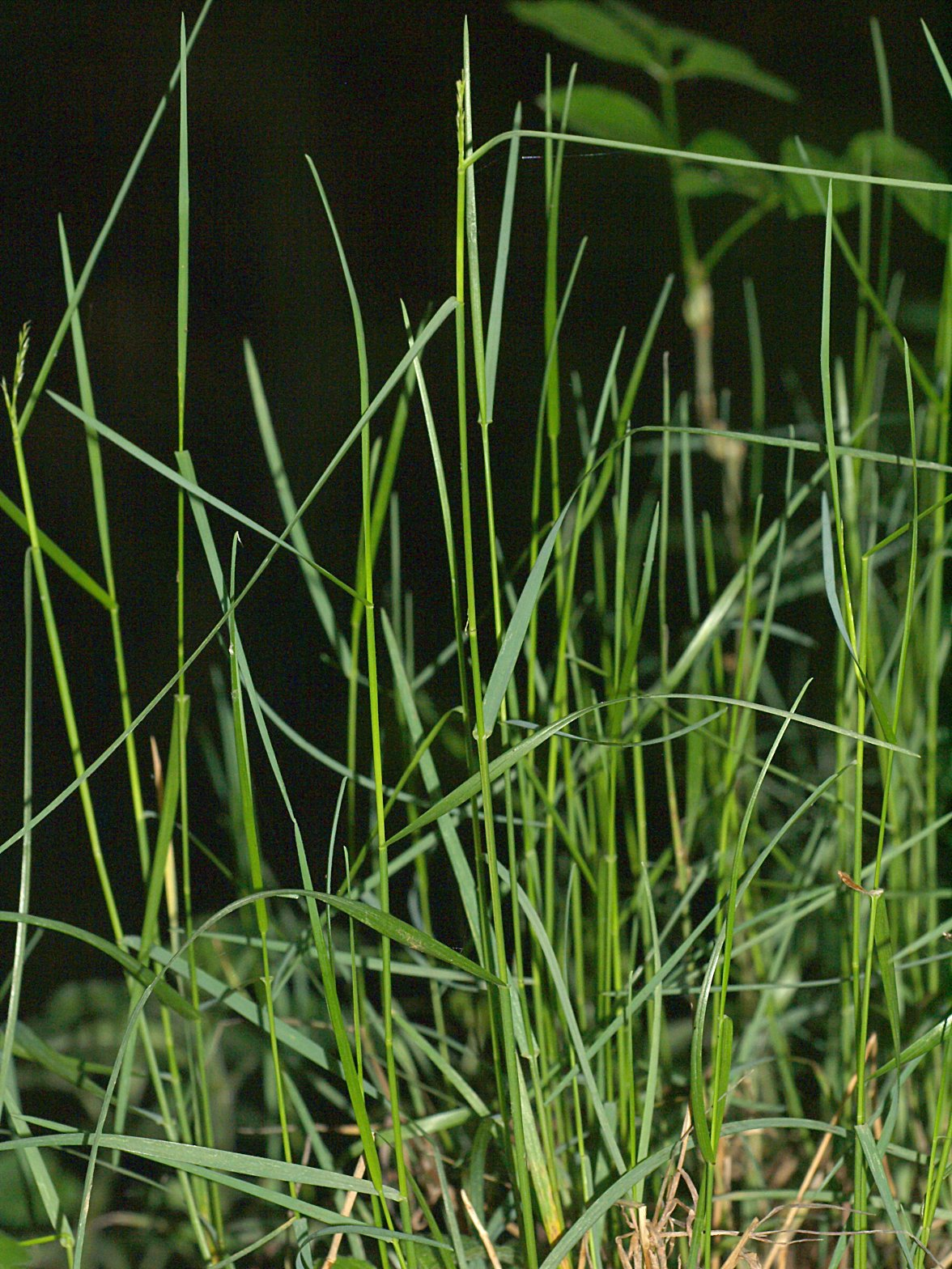 Poa nemoralis in a forest near Helmeroth, Germany.